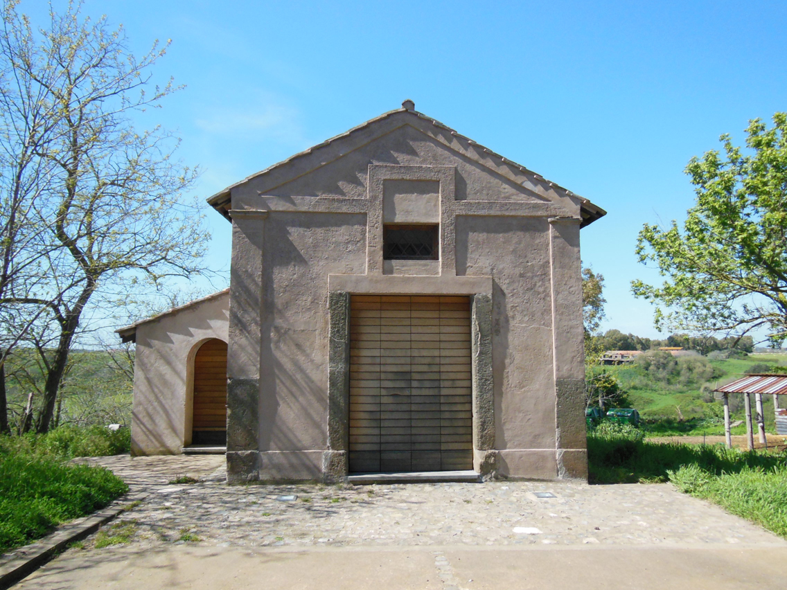 Tower of Perna in the Park of Decima Malafede in Rome, little church